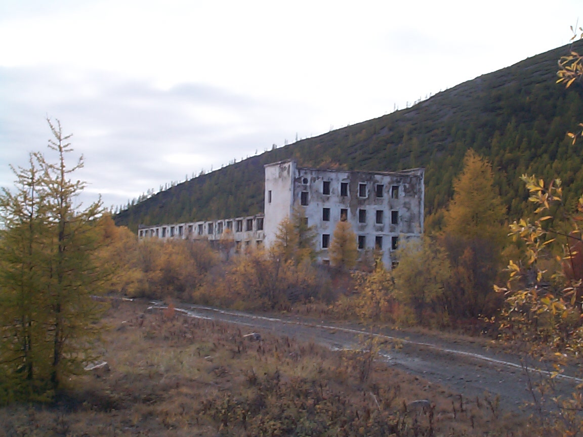 Remains of the administration building at Butugycheg tin mine – a gulag prison camp until 1955 which finally closed in 1958. Photo taken by self (Oxonhutch| (talk|)) on 5 September 2004 Summary Remains of the administration building at Butugycheg tin mine – a gulag prison camp until 1955 which finally closed in 1958. Photo taken by self (Oxonhutch (talk)) on 5 September 2004